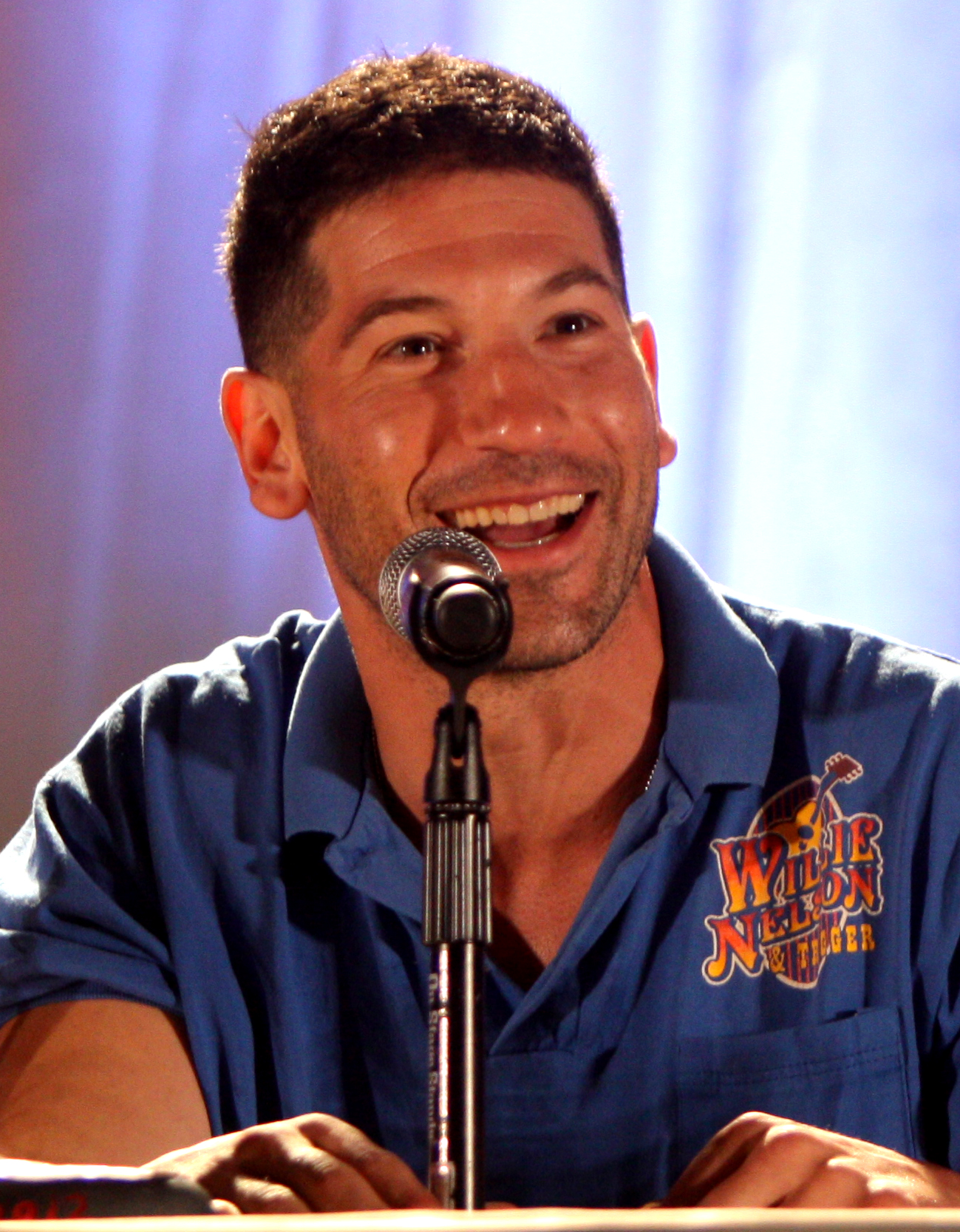 Jon Bernthal at the 2012 Phoenix Comicon in Phoenix, Arizona.